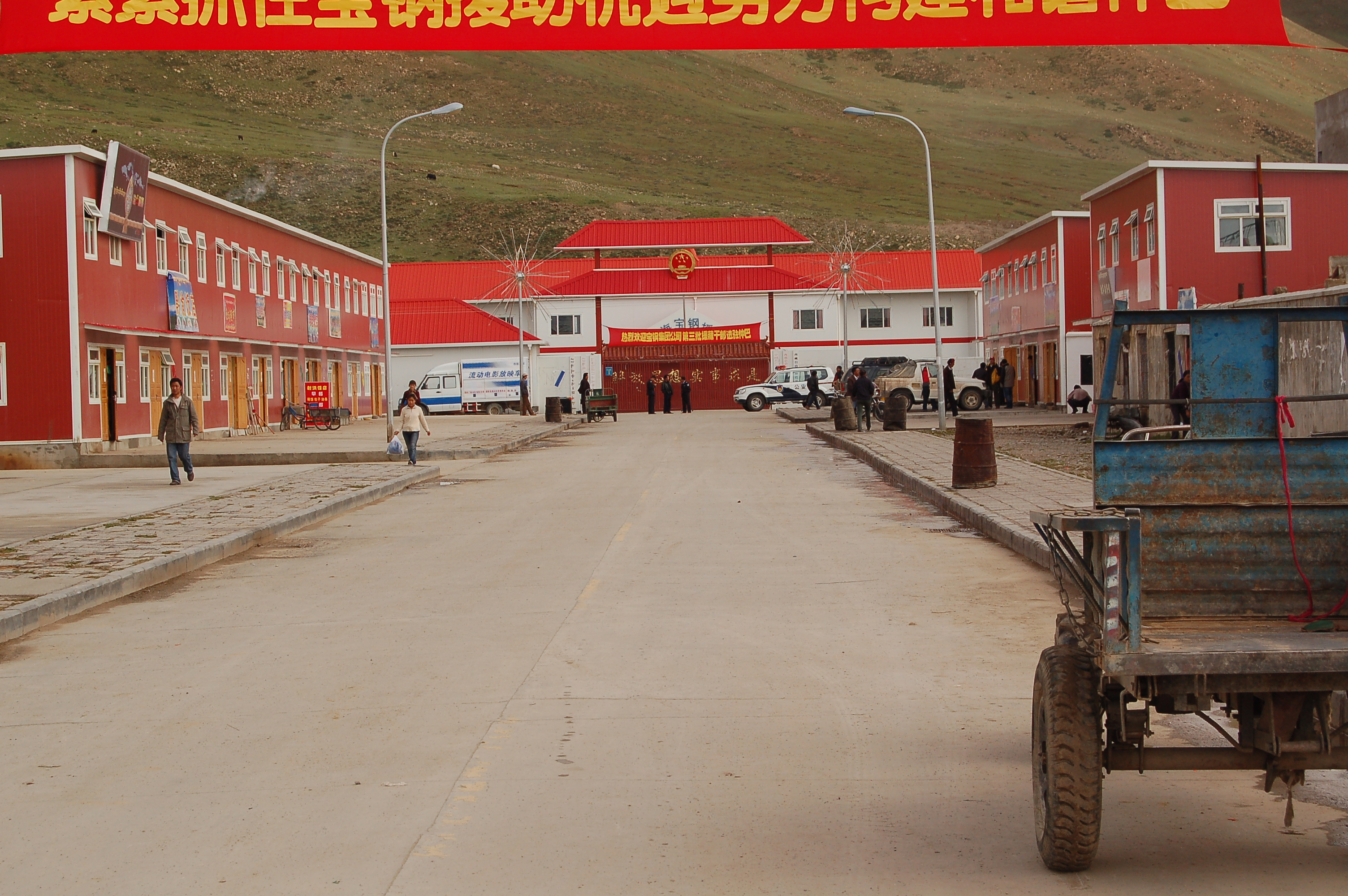 Administration building, chinese shops and restaurants in Drongpa (Shigatse District, Tibet)